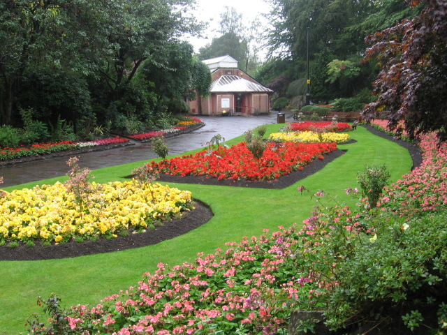 Fossil Grove gardens at Victoria Park The building protects the Fossil Grove where fossil tree stumps and branches are preserved at the site of an old quarry.